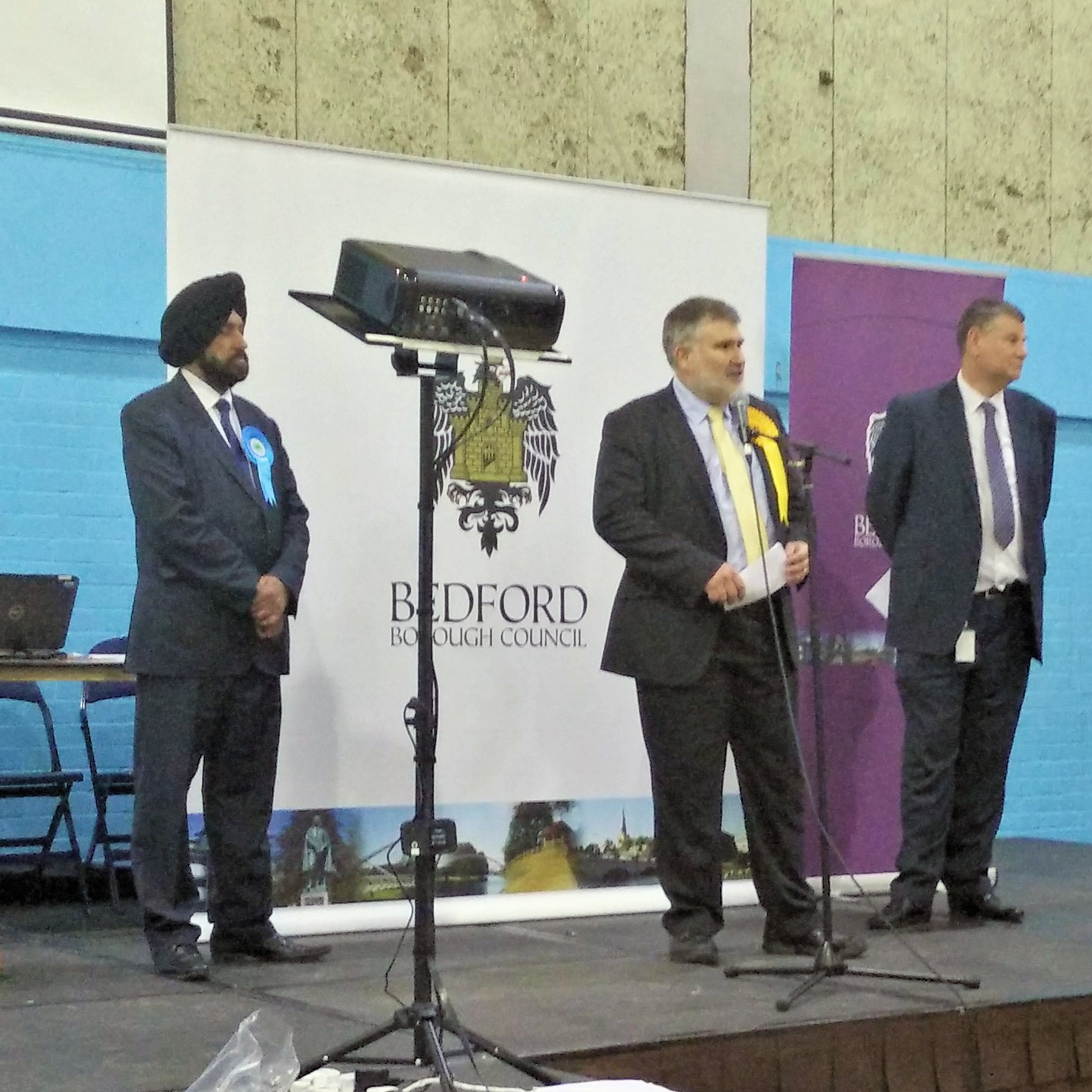 Dave Hodgson, elected Mayor of Bedford. Acceptance speech, 2015. Other information Taken at the Bunyan Centre, Bedford. Pictured left to right: Jas Parmar (Conservative Candidate), Dave Hodgson (Liberal Democrat Candidate), Philip Simpkins (Chief Executive of Bedford Borough Council and Returning Officer)